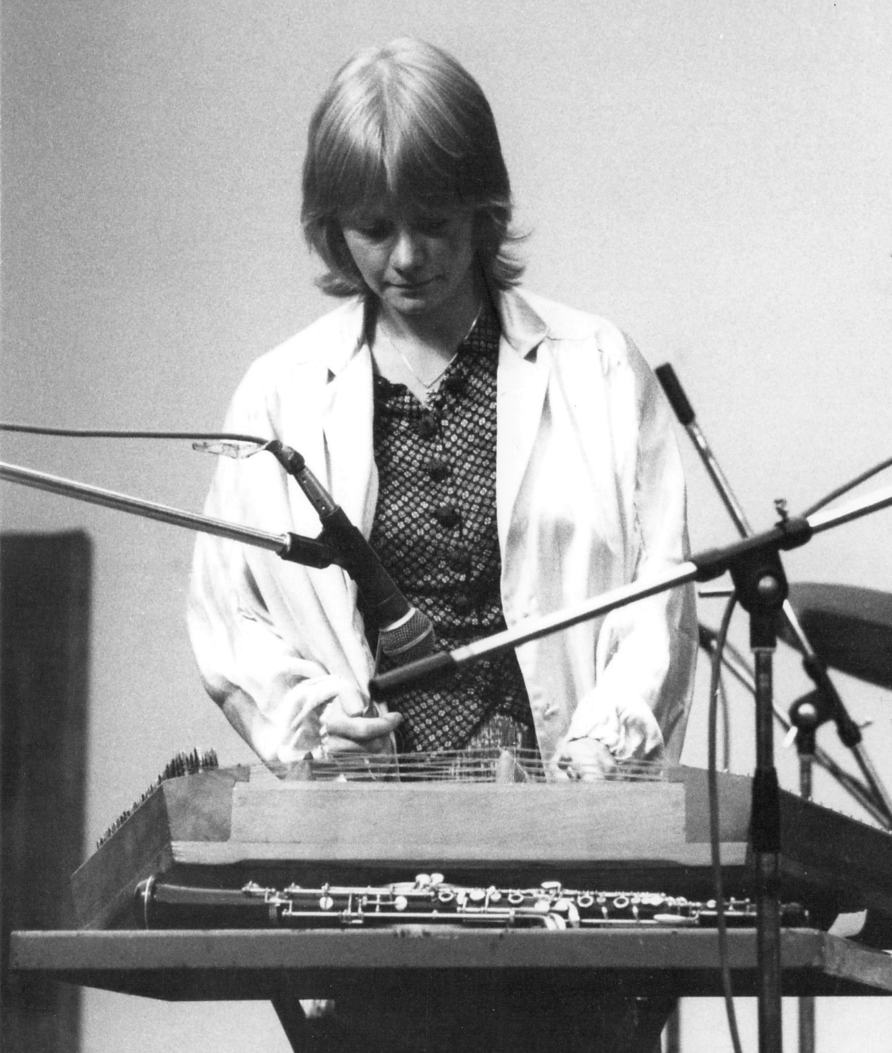 Sue Harris (musician) on stage at Greenwich, U.K., 1982 (Tony Rees photograph)